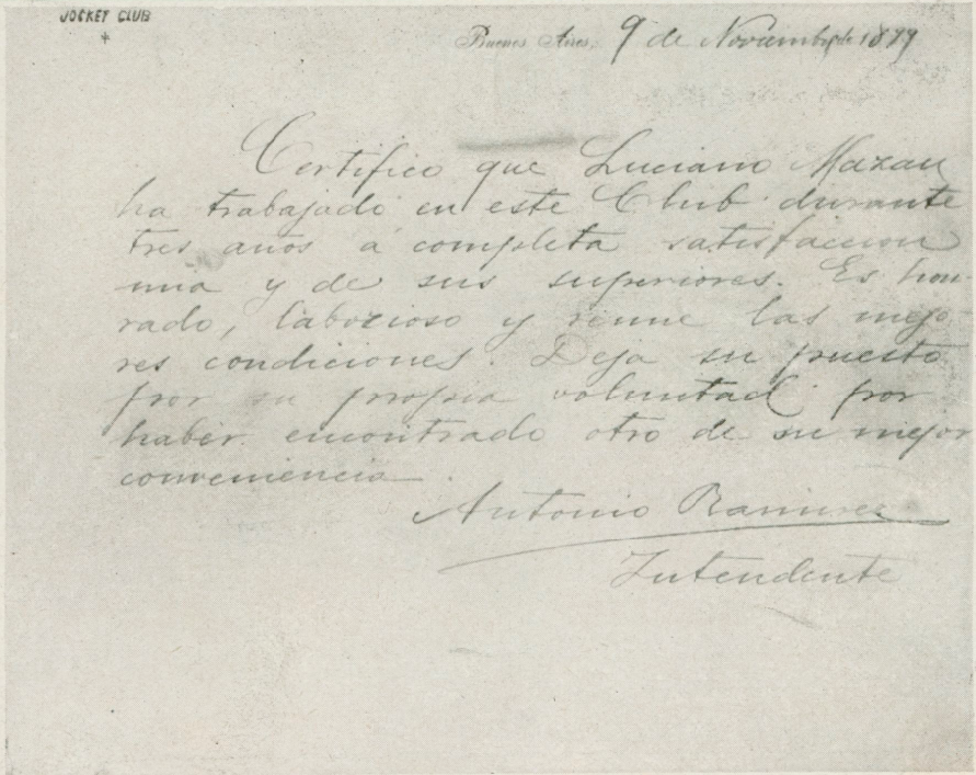 Certificate of the Jockey Club of Buenos Aires where it says that Lucien Mazan leaves the work by his will